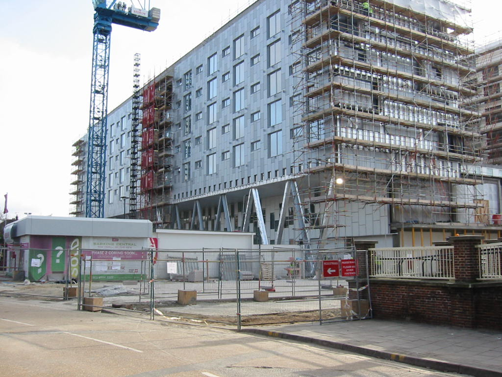 Barking Central, part of the London Riverside development, London. I took the picture myself. Category:Images of Barking & Dagenham